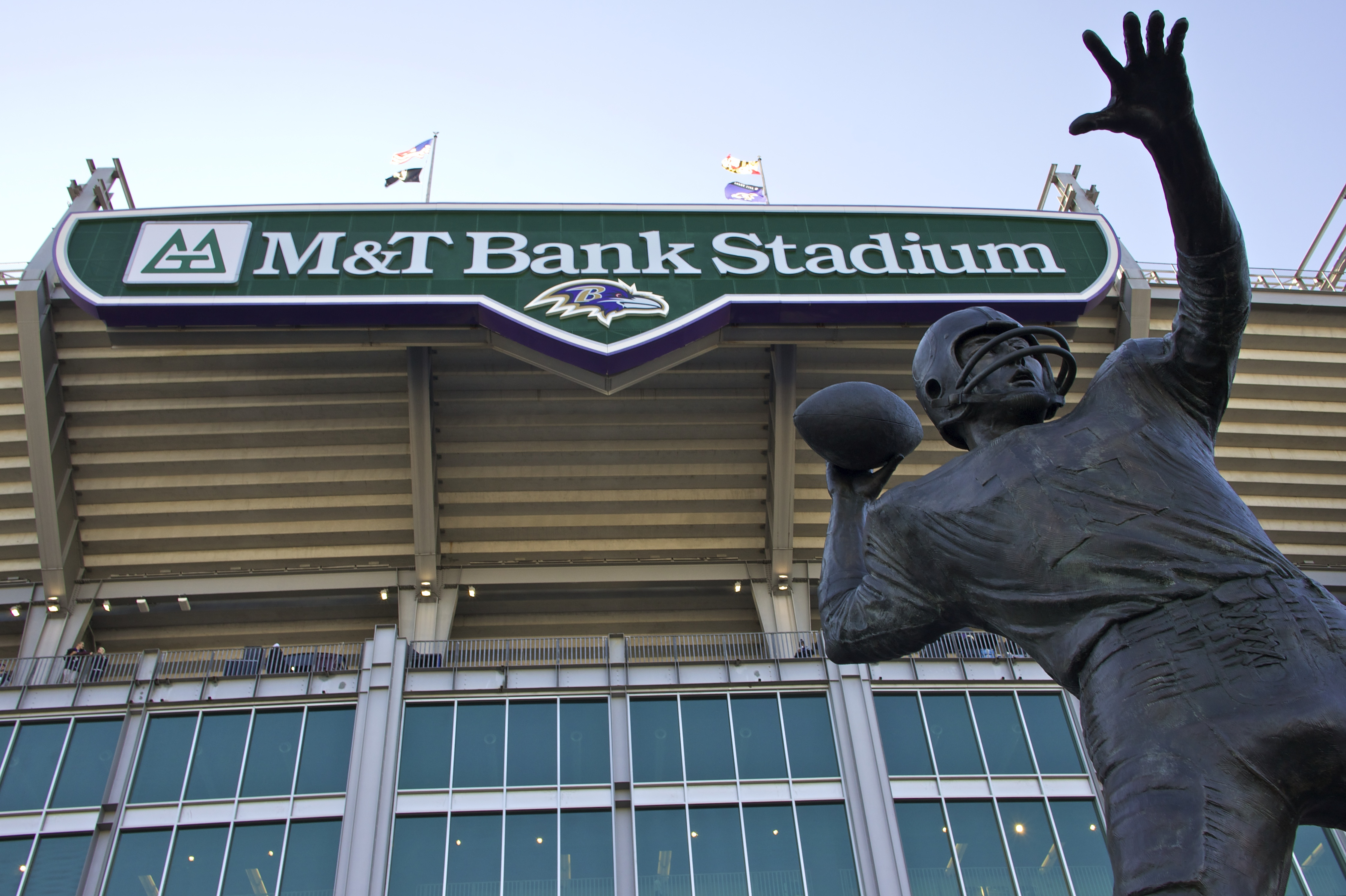 Johnny Unitas Statue at the entrance to Raven's M&T Bank Stadium in Baltimore, Maryland